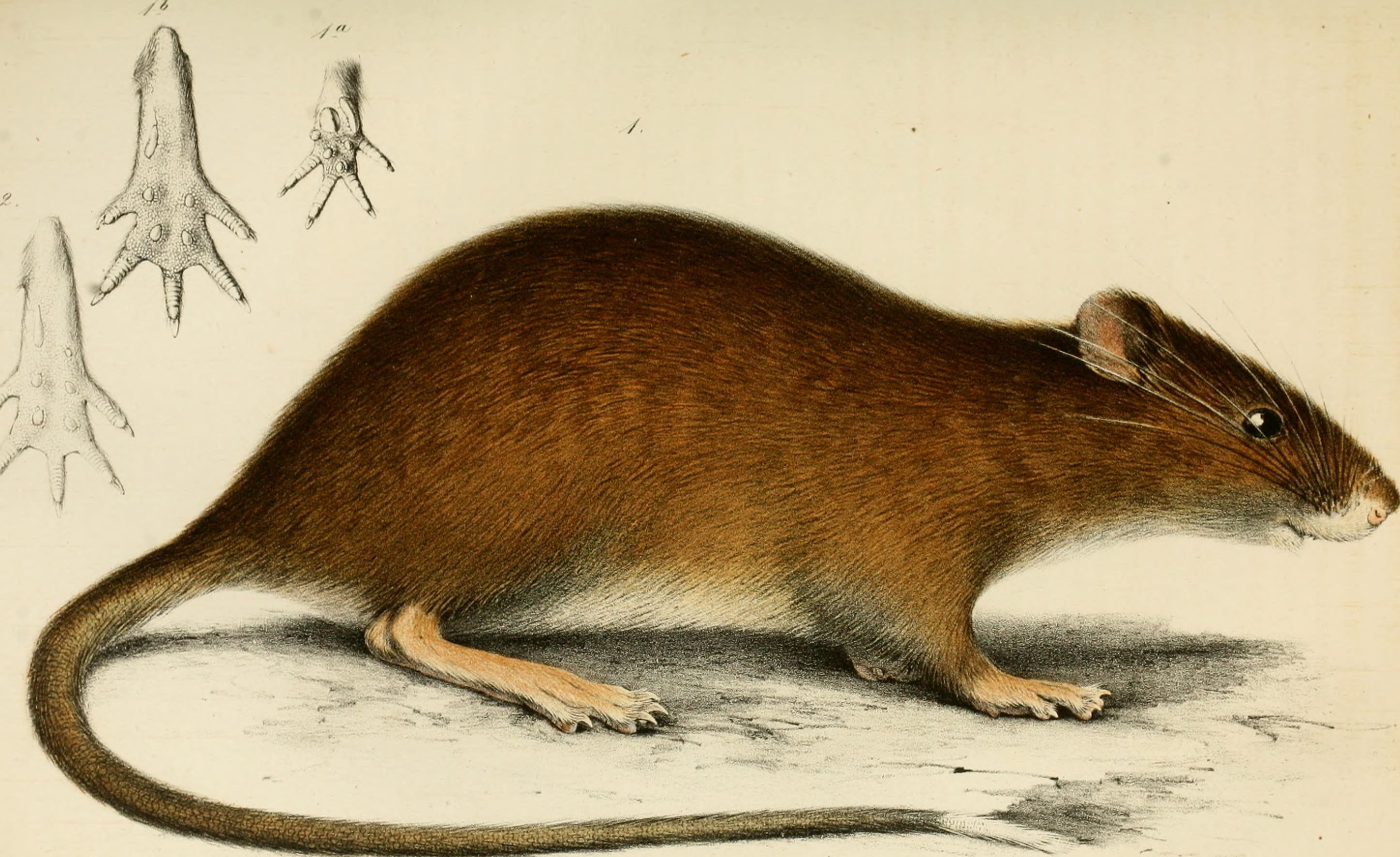 Title: Abhandlungen der Königlichen Akademie der Wissenschaften in Berlin Year: 1822 (1820s) Authors: Deutsche Akademie der Wissenschaften zu Berlin Subjects: Science Publisher: Berlin : Realschul-Buchhandlung Text Appearing Before Image: ' Text Appearing After Image: f. n^i X !^ s:;\